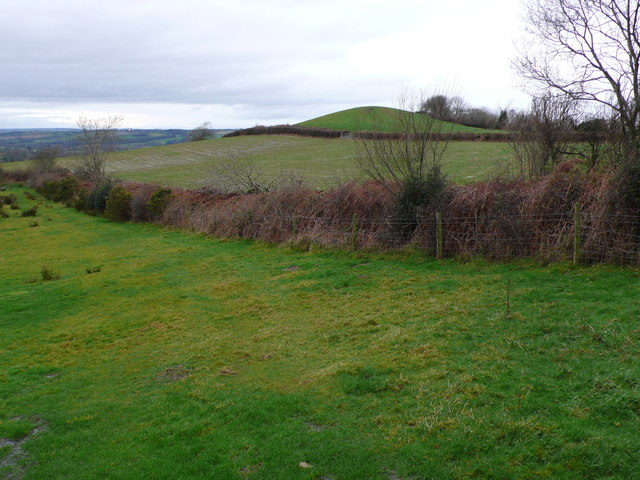 Blagdon Hill This shows the southern end of Blagdon Hill taken from the road close to the northern end of Conegar Hill due North of Broadwindsor in Dorset